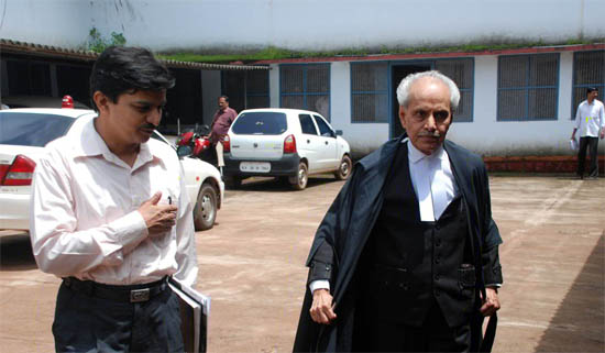 Justice B. K. Somasekhara (right), head of his namesake Somasekhara Commission that was appointed by the BJP Karnataka state govt to investigate the attacks on Christians in southern Karnataka on September 2008.